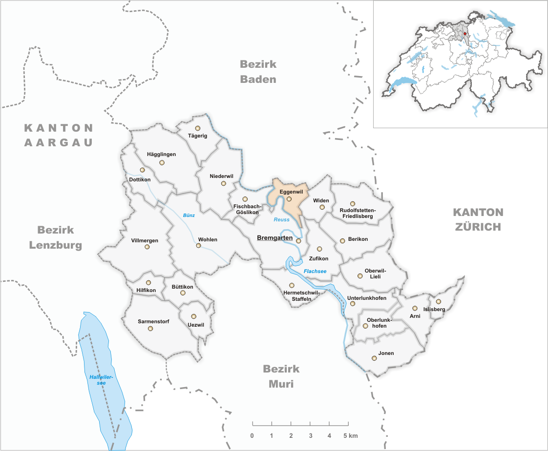 Municipality Eggenwil